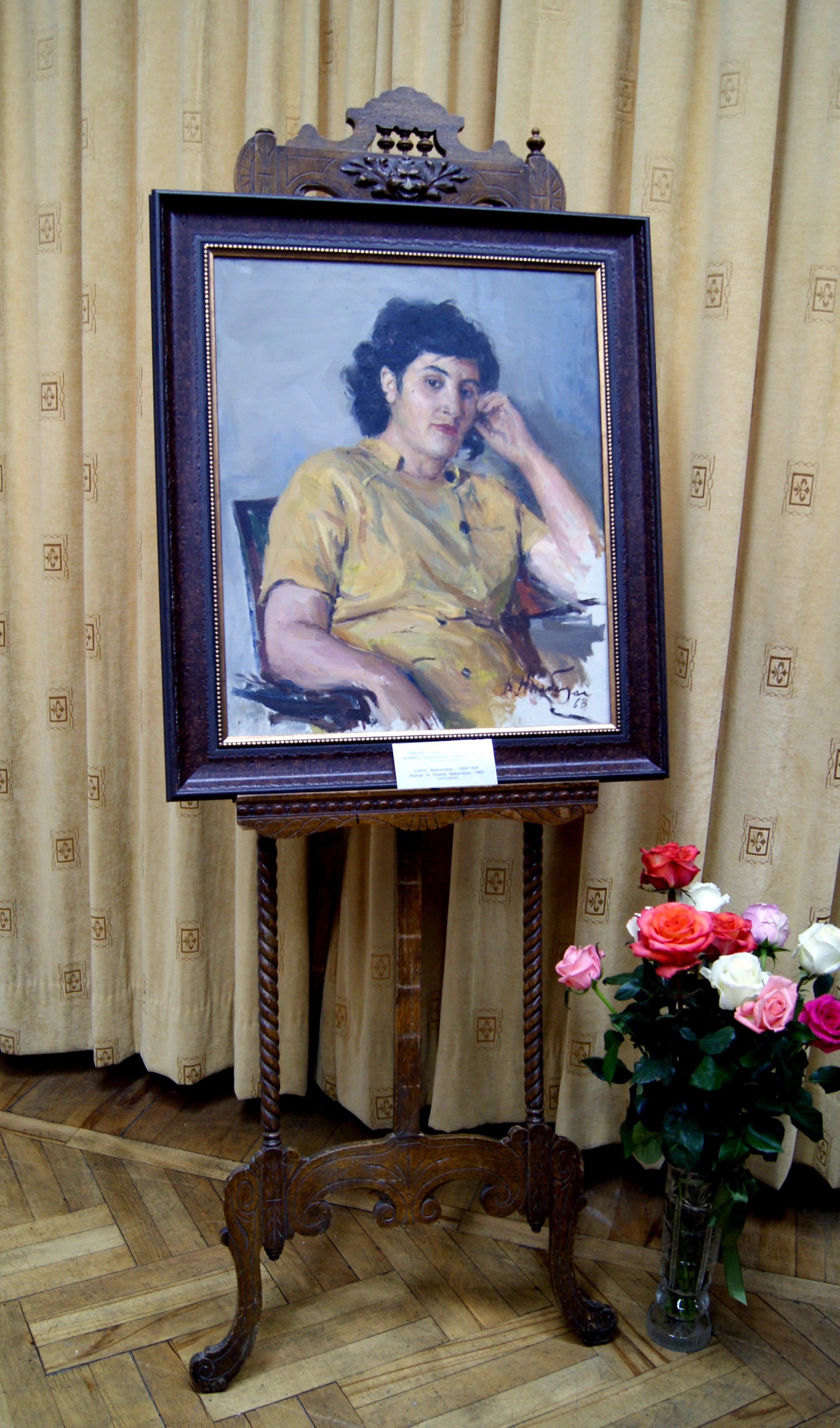 Արփենիկ Նալբանդյան. 100-ամյակին նվիրված հոբելյանական ցուցահանդես Հայաստանի ազգային պատկերասրահում Arpenik Nalbandyan. The 100th Birth Anniversary Exhibition at National Gallery of Armenia